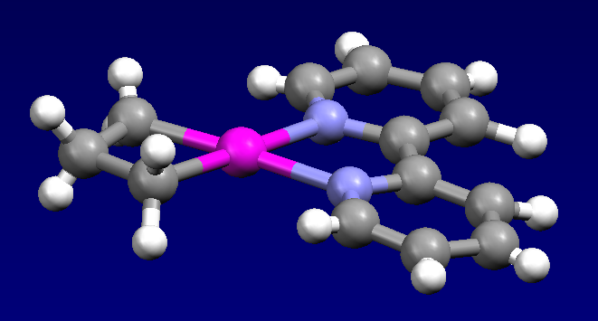 Structure of the platinacyclobutane PtC3H6(bipy) from doi 10.1021/ja00372a010.